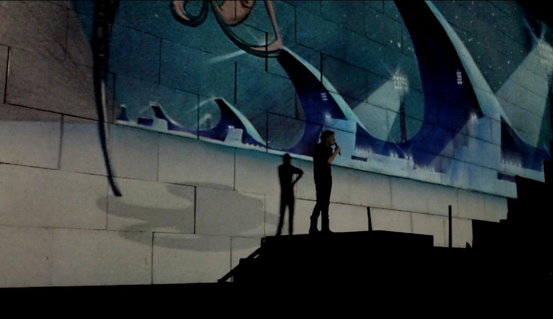 I took this photo from the first row, center stage using a Kodak Playsport camera.